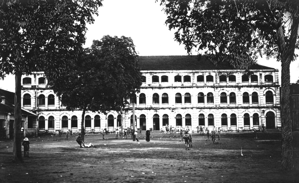 fveee tt